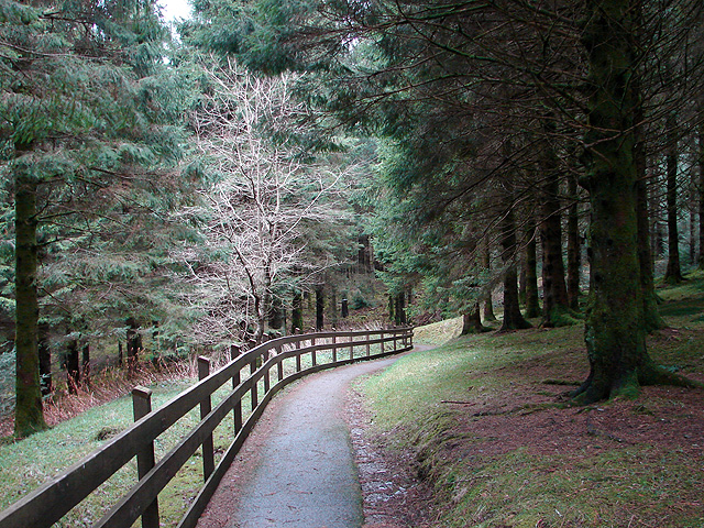 The start of the Severn Way Walk from Rhyd-y-benwch. The whole of the Severn Way from Rhyd-y-benwch to the Source has been upgraded for easier walking. The first few hundred yards has been improved to Accessibility standards. For more information about my walk in this area see 1121692.